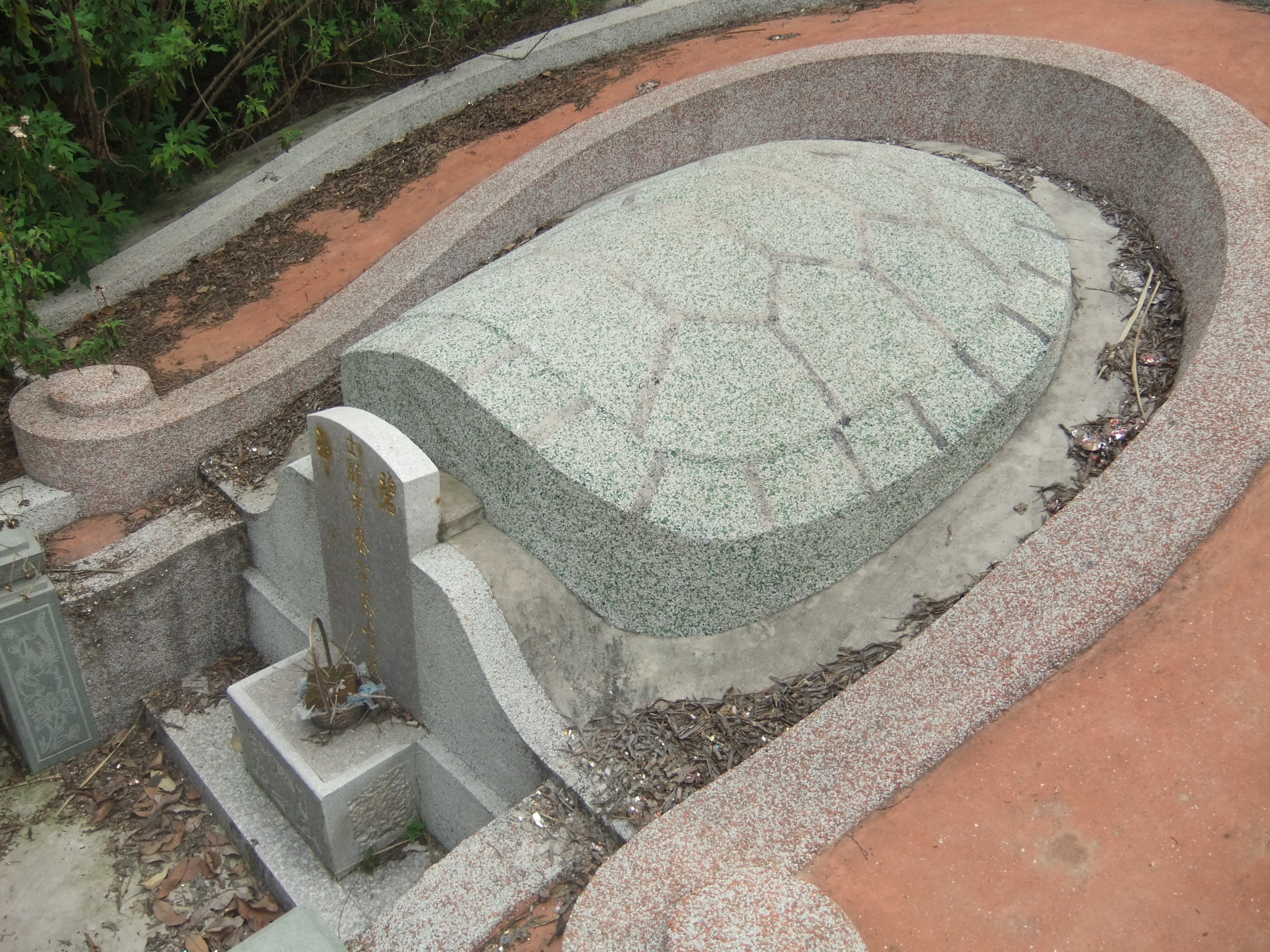 Tombs in Lingshan Islamic Cemetery (Lingshan Park) in Quanzhou. Some are classic Fujian "turtle-back tombs"; others, of a hybrid variety, with the central "turtle back" replaced with an Islamic-style sarcophagus. And there are some tombs that are just a small earth hill...